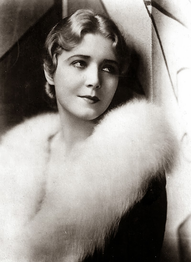 Vilma Banky. French Postcard. (Cinémagazine)